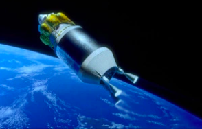 FLO Earth Departure Stage